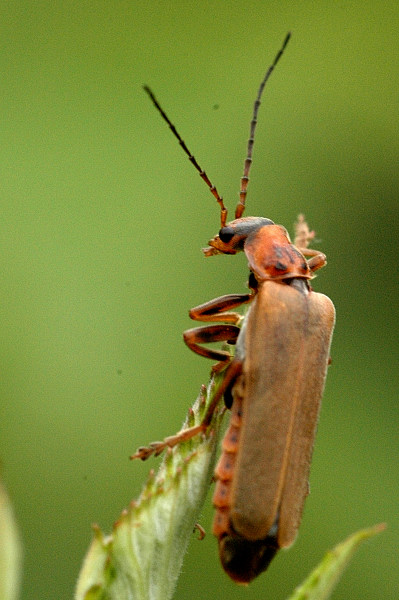 Picture taken in Commanster, Belgian High Ardennes . Species: Cantharis probably rufa